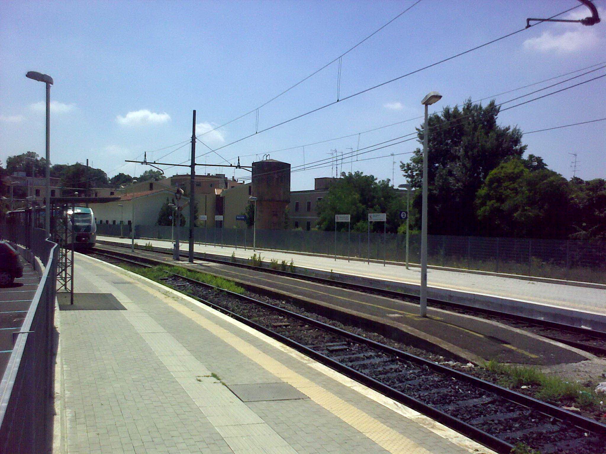 The rail-station of Albano Laziale